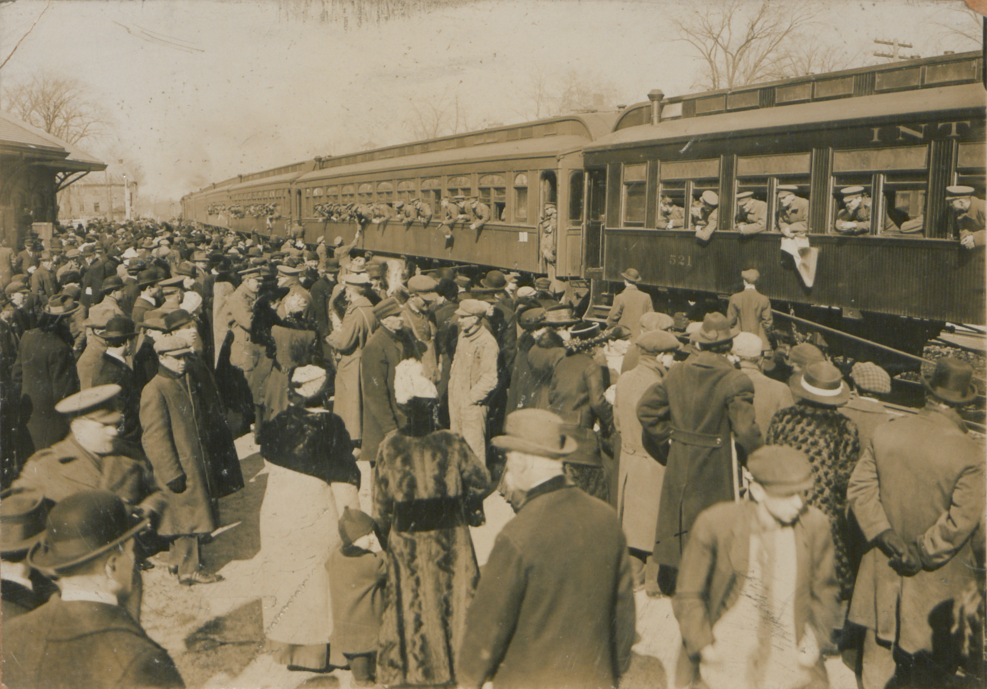 Original caption: “The farewell.” [Note: per label at Queen's University Archives, this is the 22eme Battalion CEF leaving St. John's, Quebec, in 1915.]